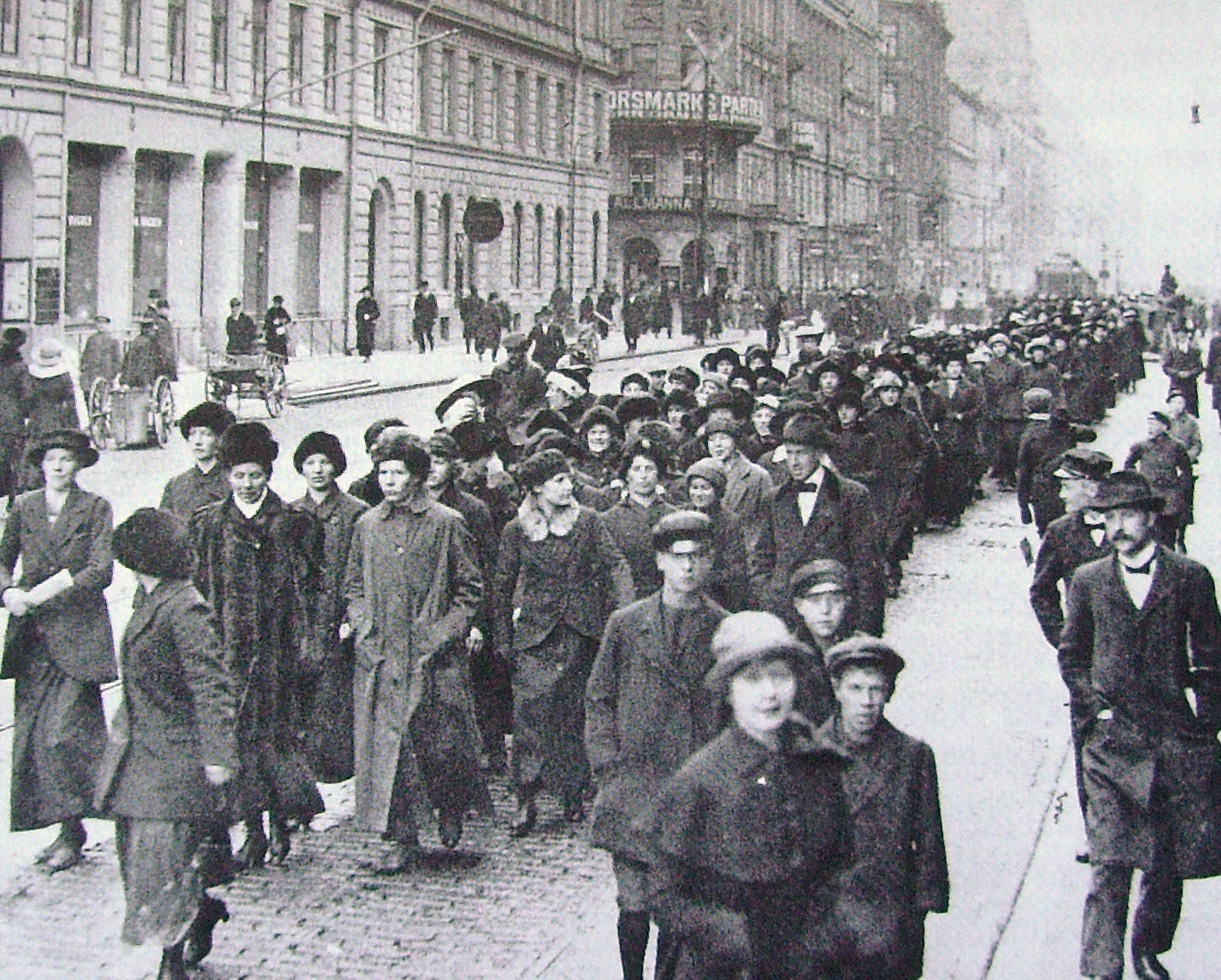 Picture of demonstrating mothers in Stockholm